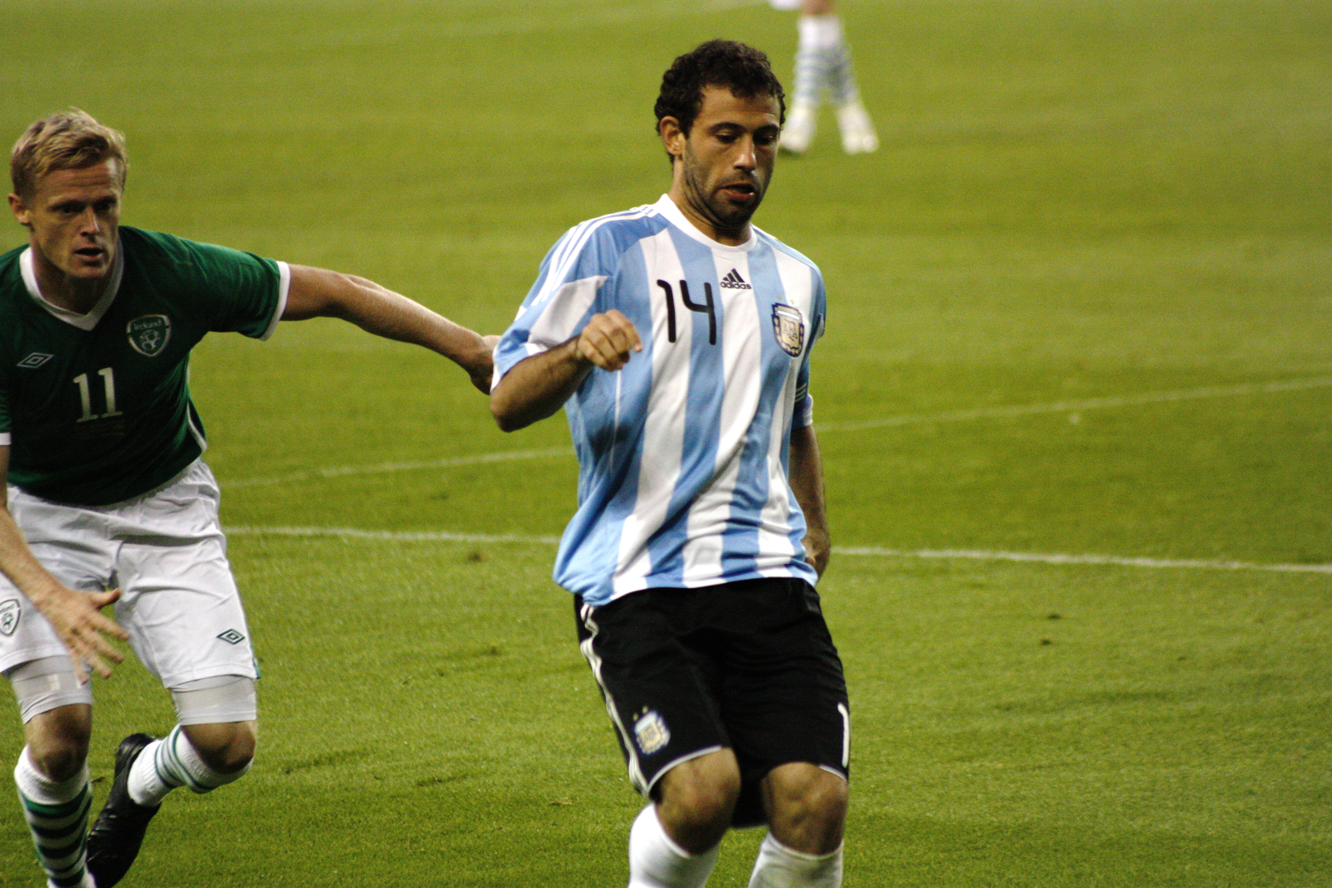 Javier Mascherano of Argentina, Damien Duff of the Republic of Ireland behind him.